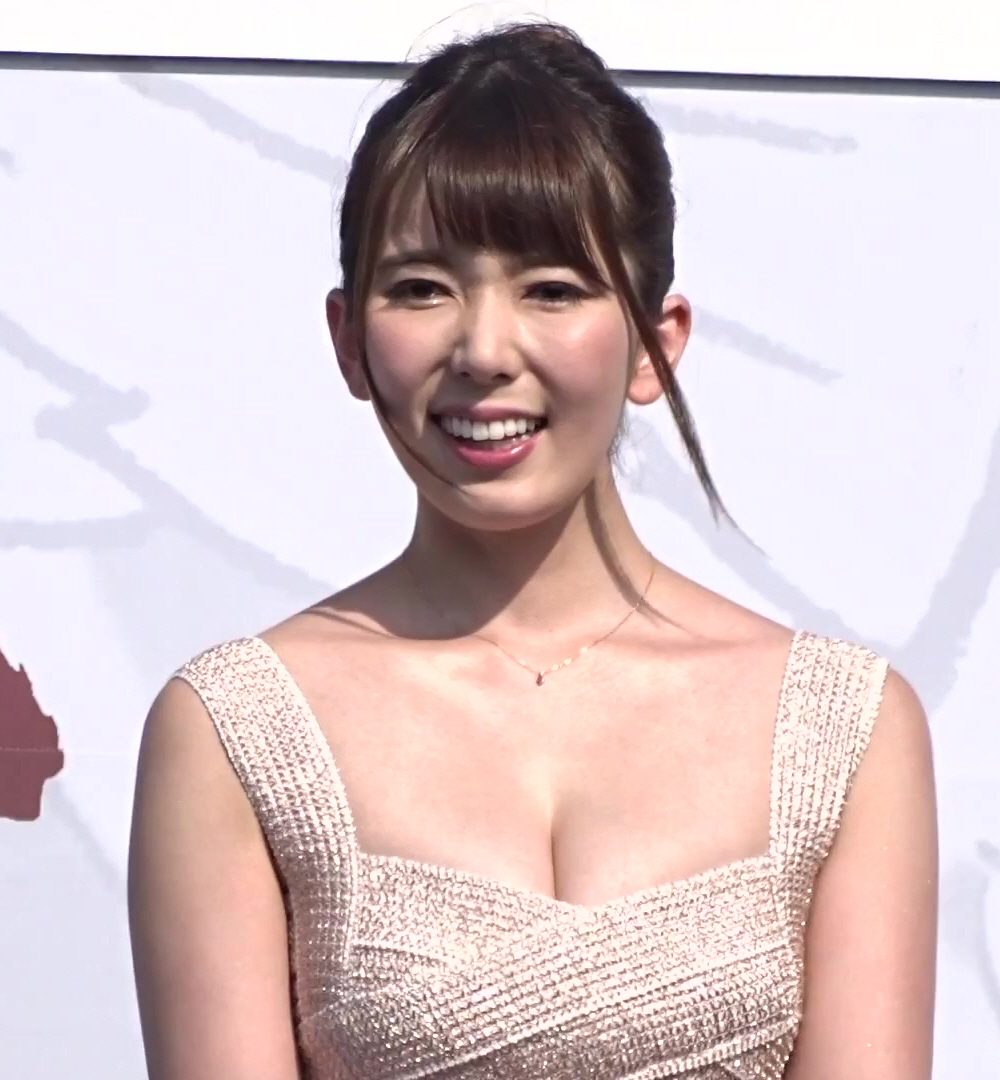 160528 Hatano Yui